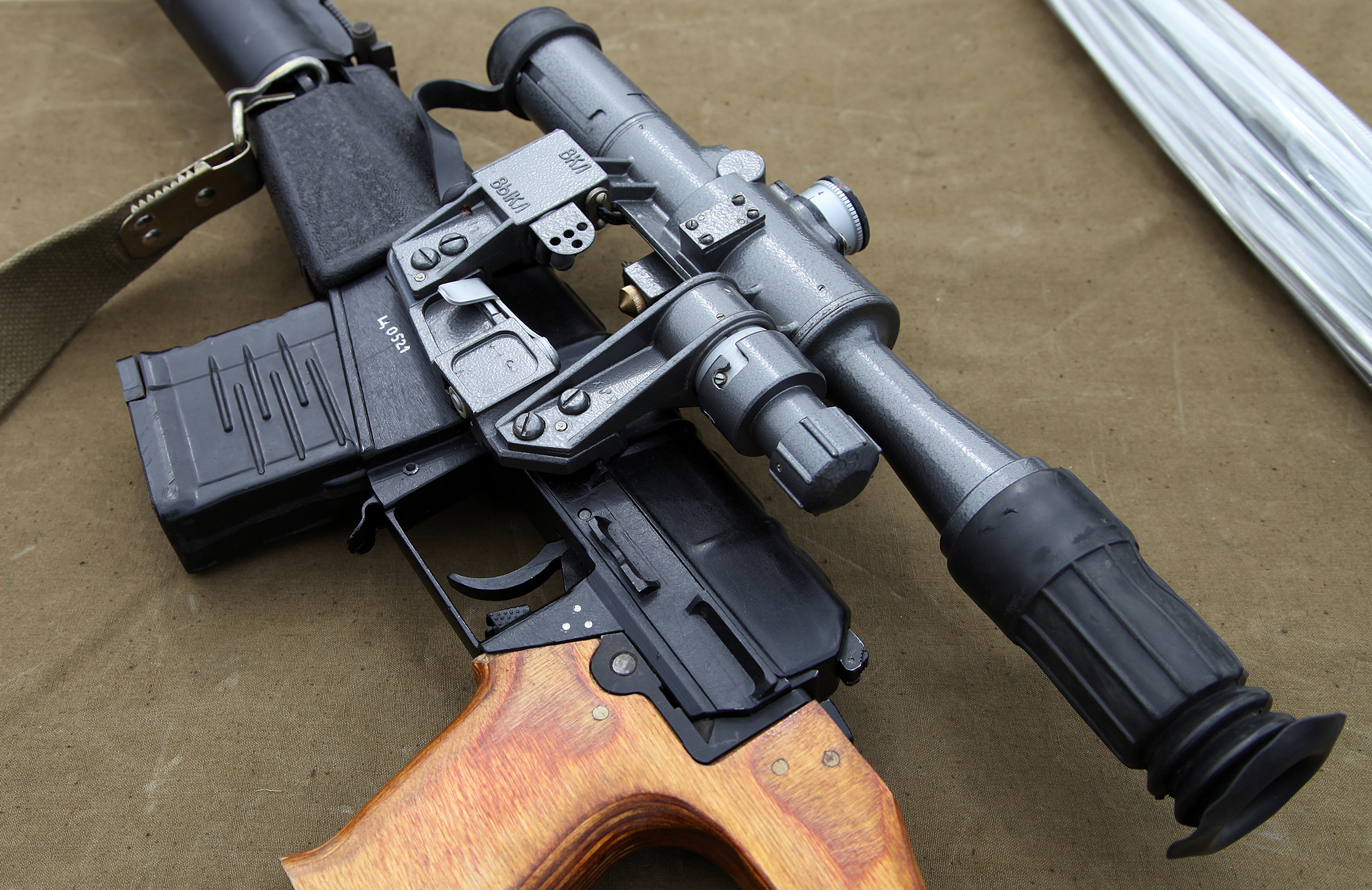 VSS Vintorez sniper rifle